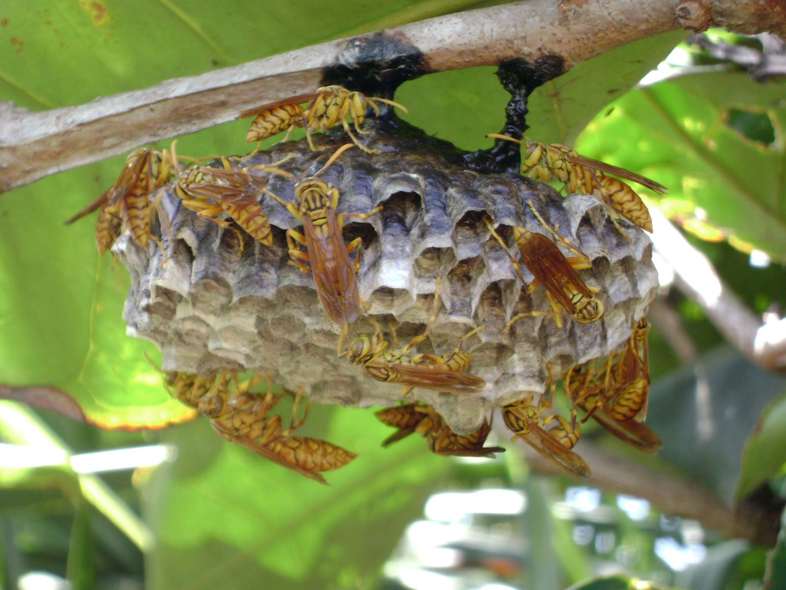 Polistes olivaceus, paper wasp on their nest in Tonga